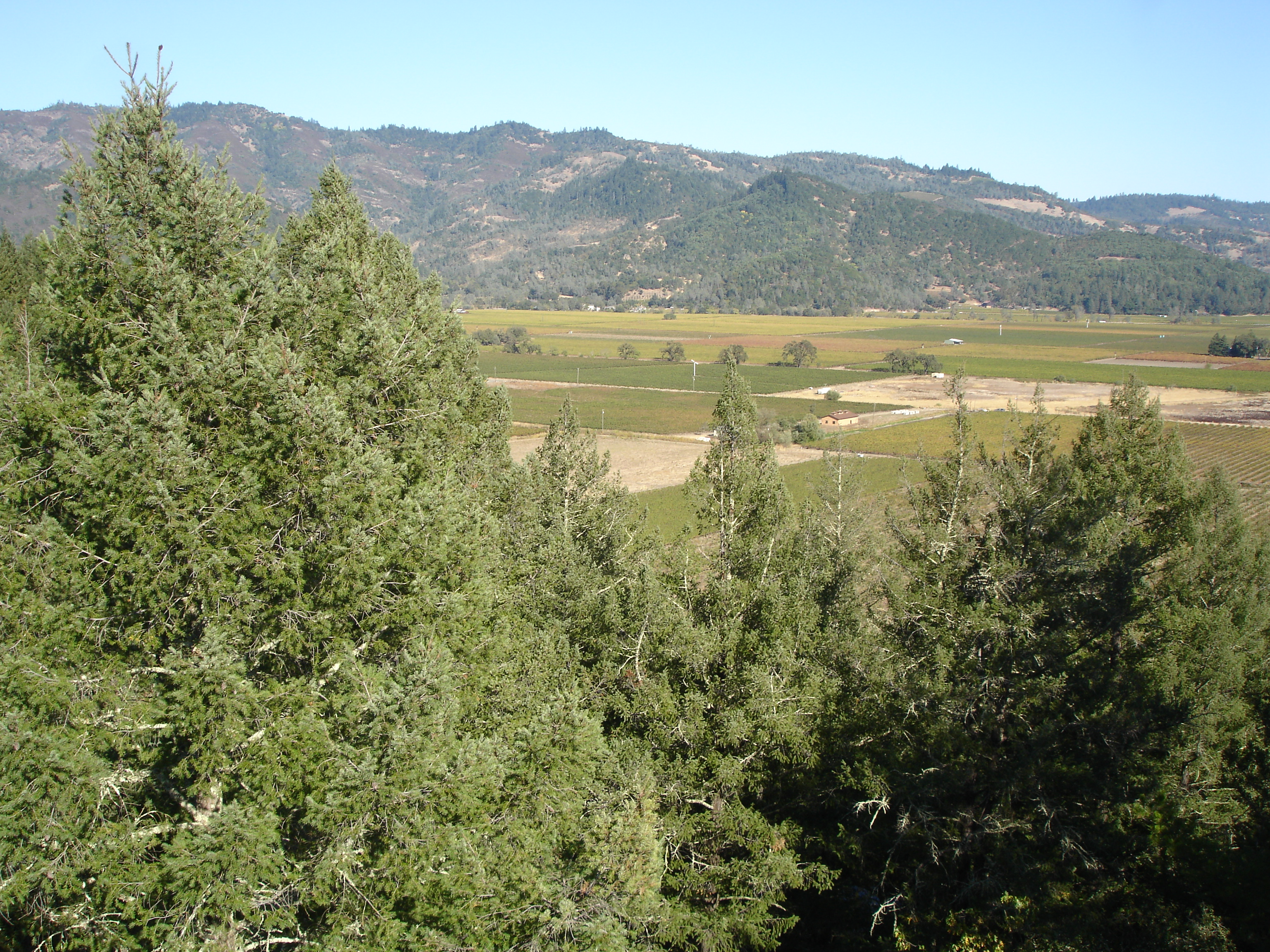 The California Diamond Mountain District AVA wine region, in the northeastern Napa Valley. Sterling Vineyards of the upper Napa Valley.